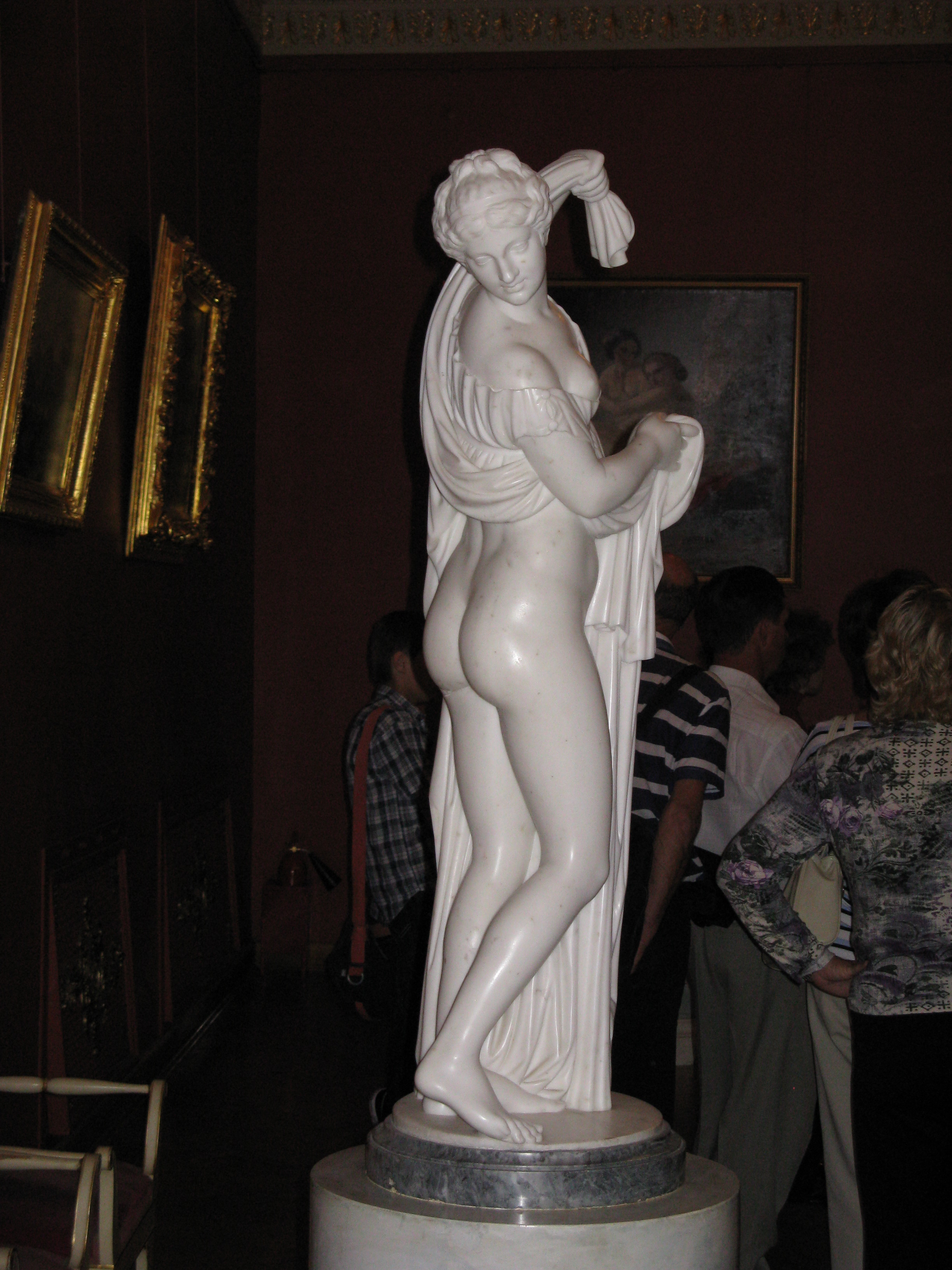 Aphrodite Kallipygos at Yusupov Palace.